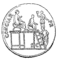 738 woodcuts illustrating the work A Dictionary of Roman Coins, Republican and Imperial (1889). To identify a coin please look at the filename to identify a page number, and check the Dictionary on numiswiki